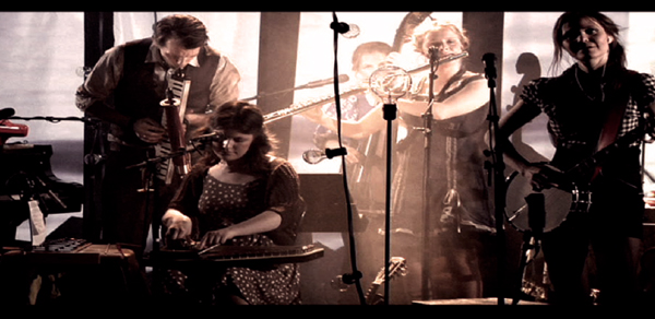 KAADA performing live with his Orchestra